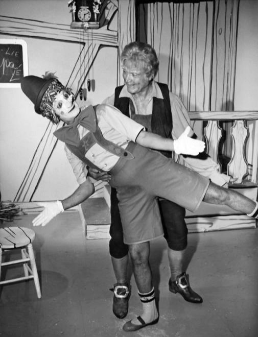 Red Skelton with Marcel Marceau on The Red Skelton Hour, 1965. While Marceau and Skelton performed most of their pantomimes alone on the program, this was one where they performed together-"Pinocchio".